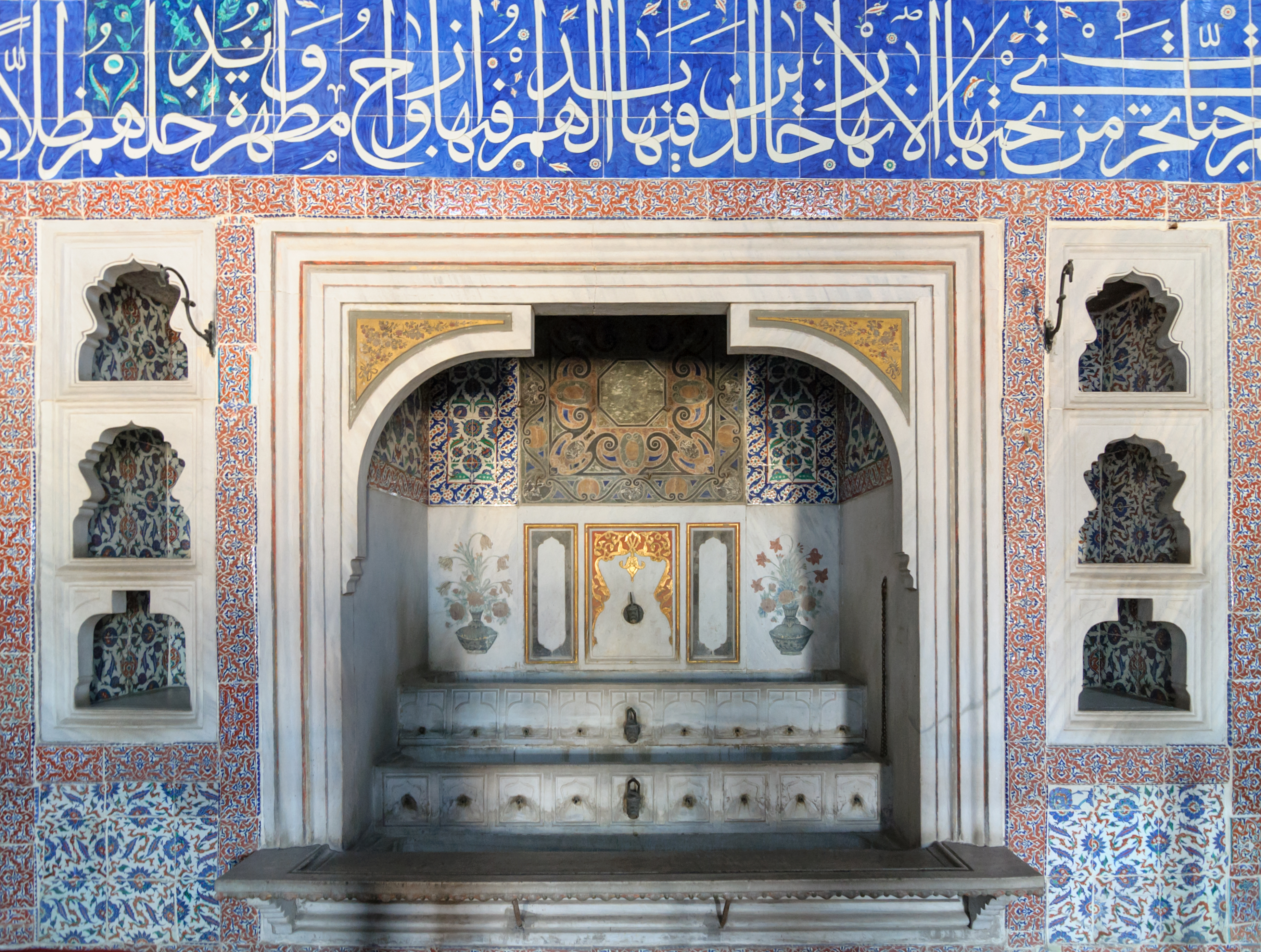 The fountain of the privy chamber of Murat III (III. Murad Has Odası) in the harem of Topkapı Palace, Istanbul, Turkey.